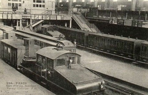 PO E 0 "boîte-à-sel", future BB 1280, in Orsay Station, Paris.